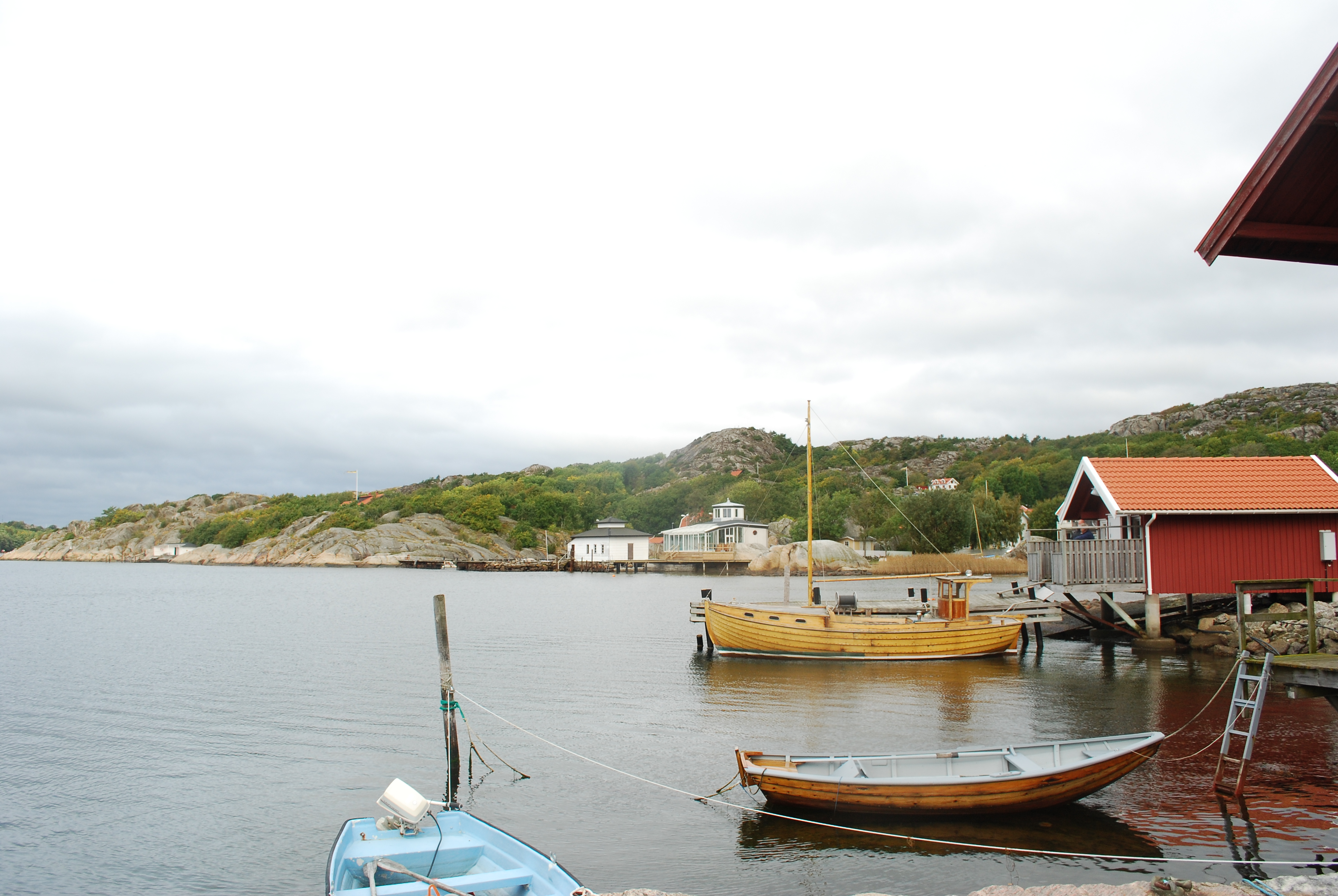 Nösund.